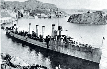 A photo of HNoMS Troll, a Draug class destroyer.